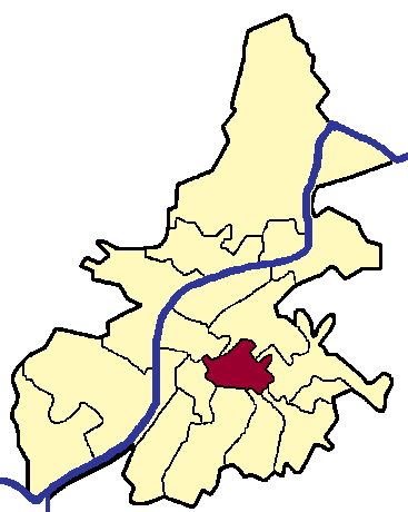 Trier suburbs